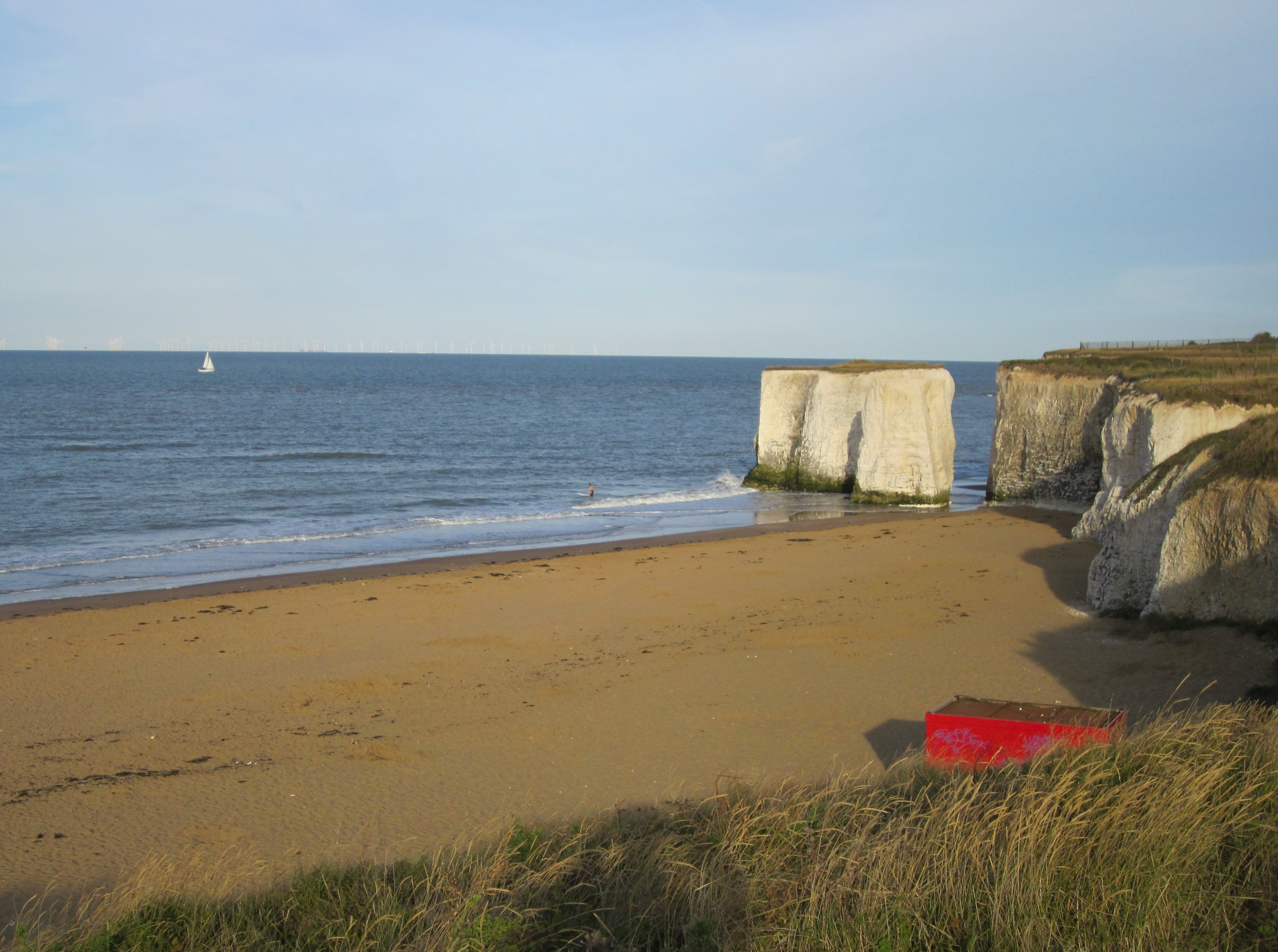 Southeast end of Botany Bay, between Margate and Broadstairs in Kent, UK. The Thanet offshore windfarm can be seen on the horizon.